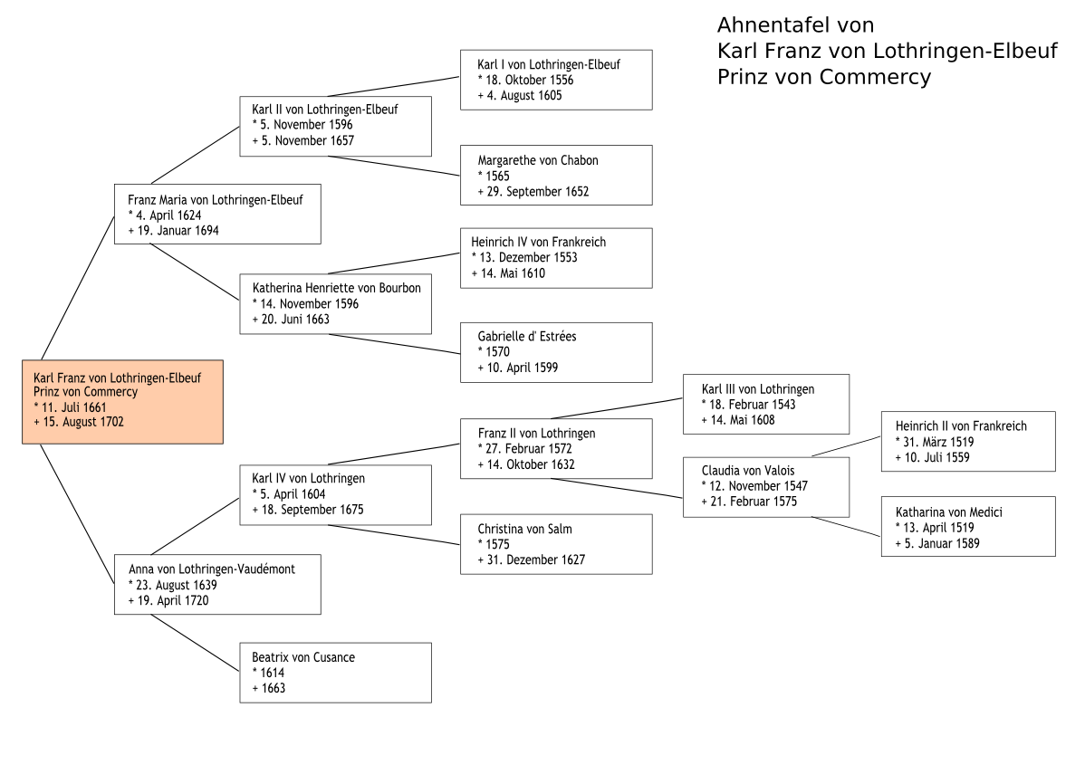 Family tree of Charles Francis of Lorraine, Prince of Commercy (1661–1702).